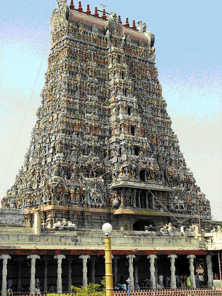 Sri Meenakshiamman Temple Tower, Madurai